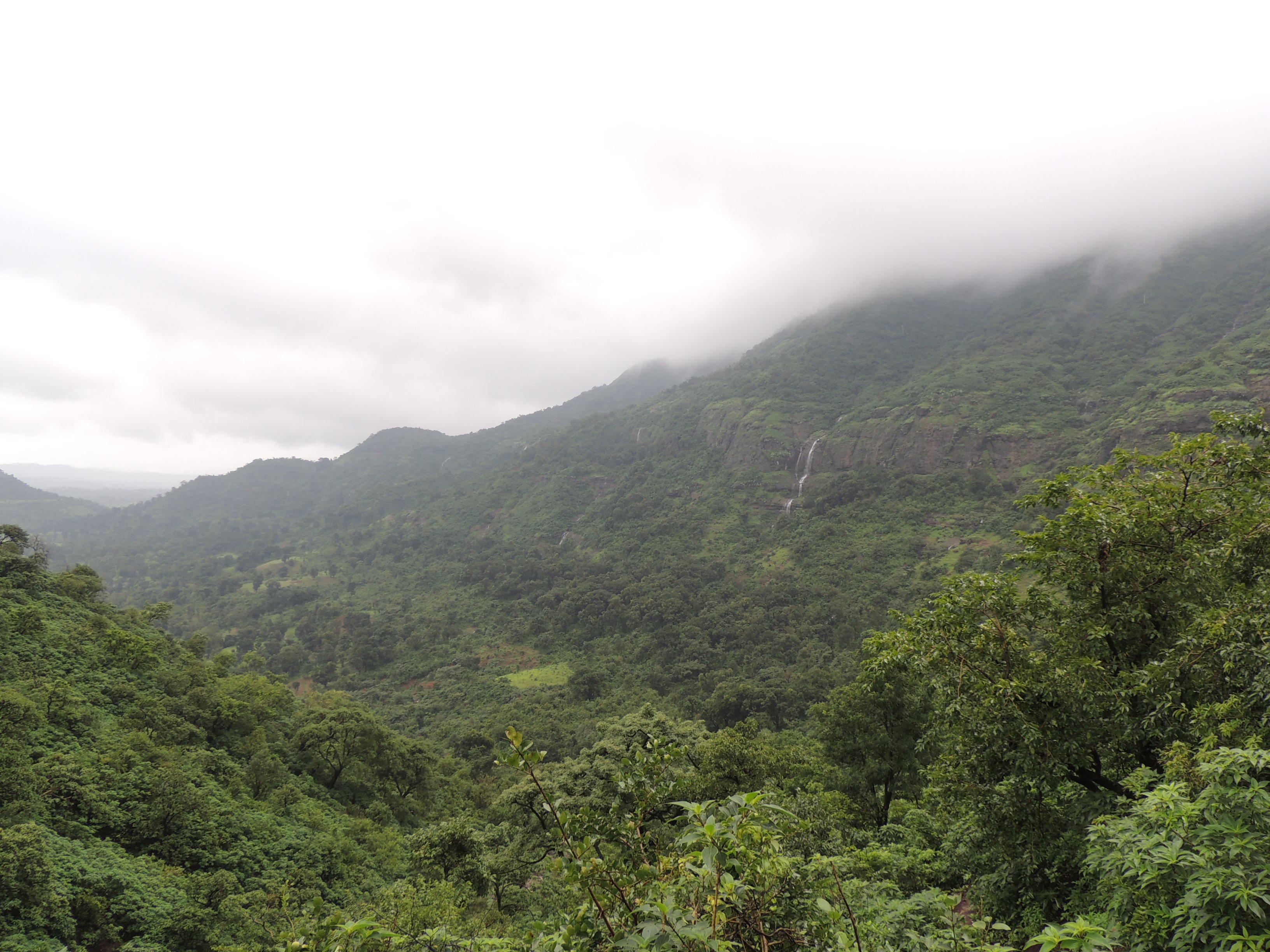 scenes of western ghaats, maharashtra